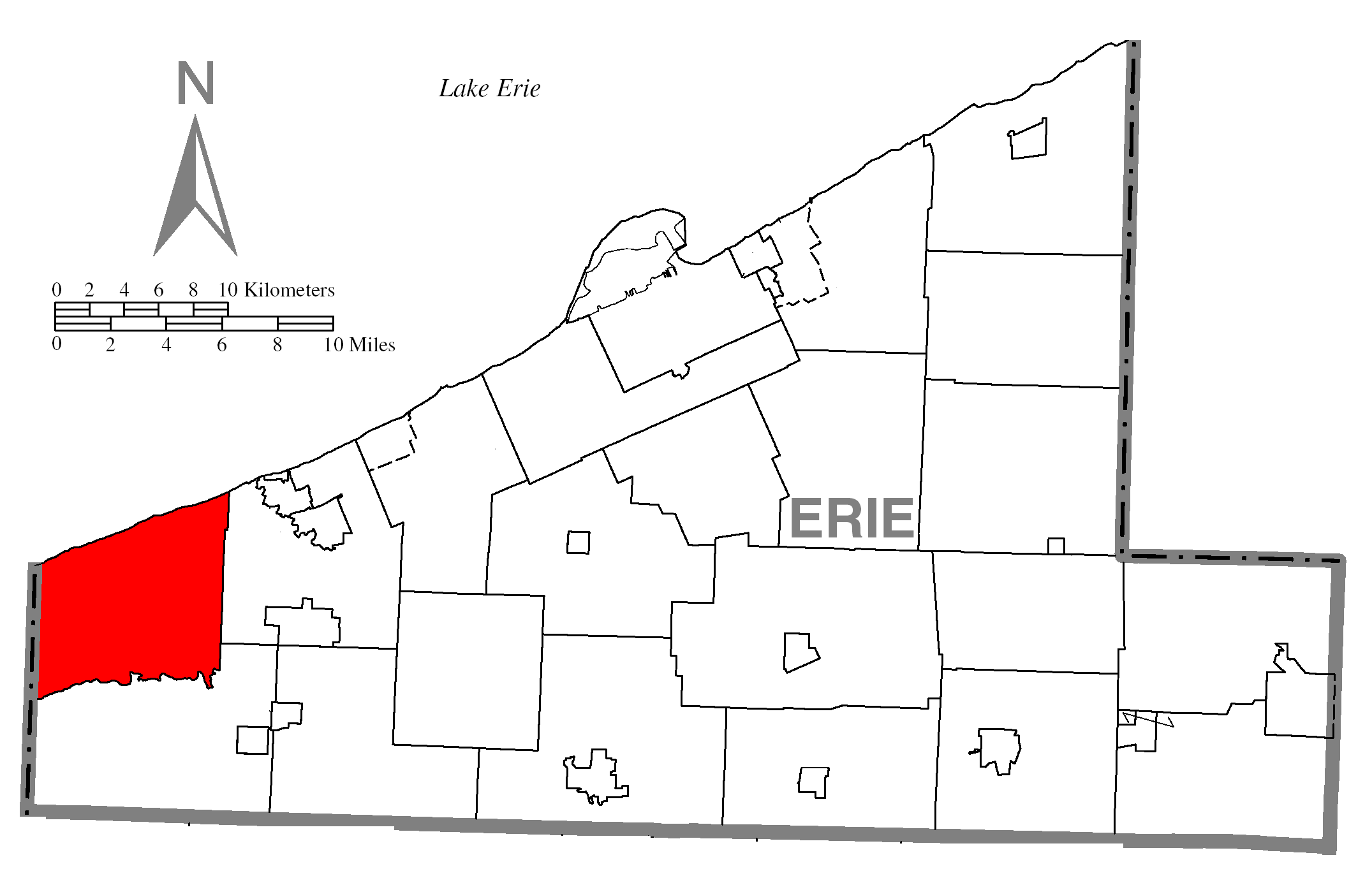 A map of Erie County showing Springfield Township, Pennsylvania (alternate) highlighted on the map.